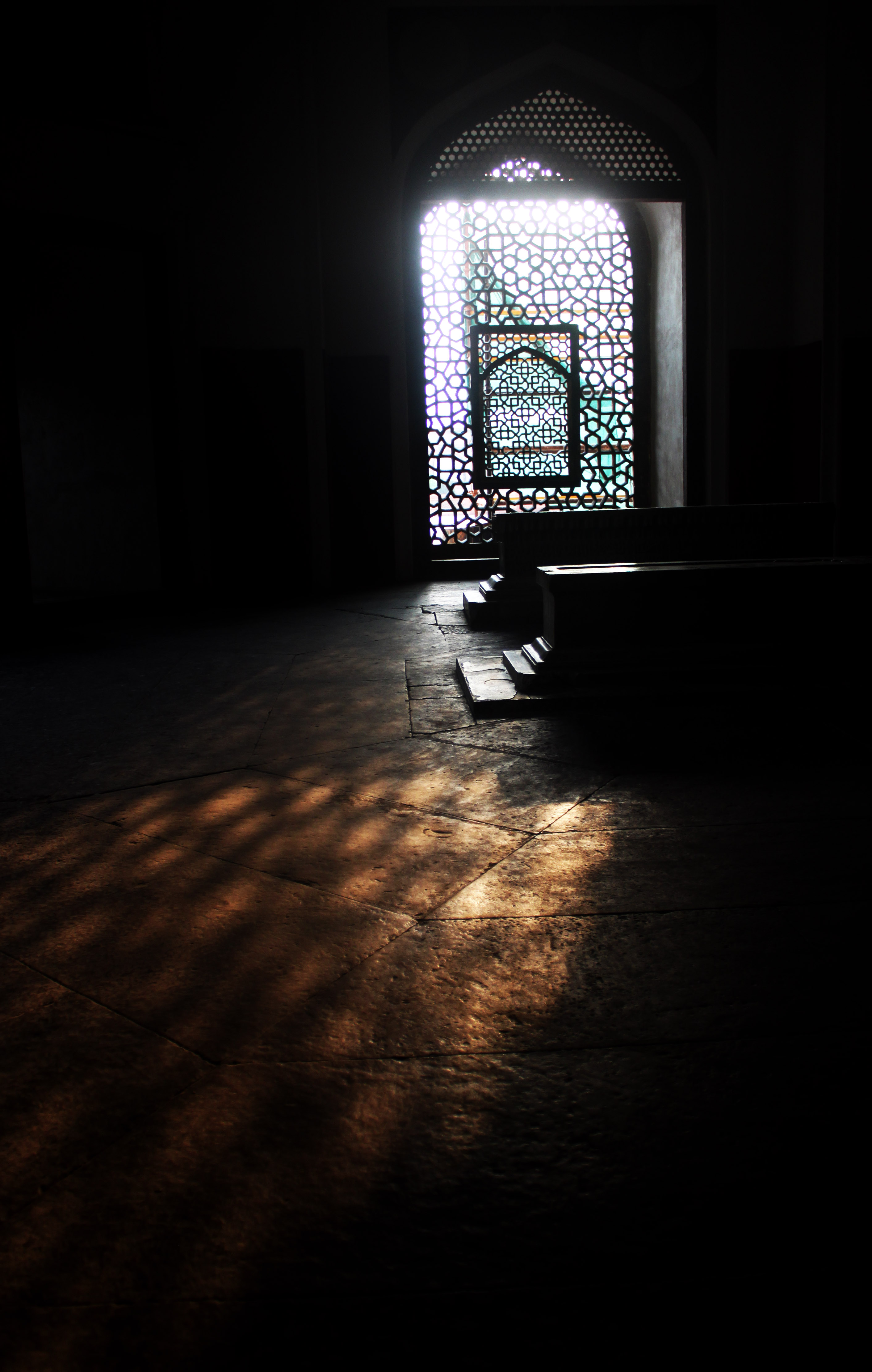 The inside scene of Humayun's tomb is taken in the picture along with the pattern created by sun light passing through the windows of the room. This patterns and designs were signature of the Mughals.